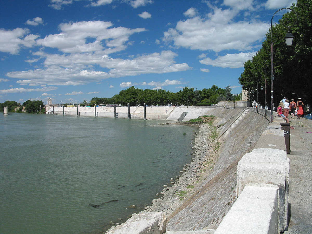 Arles, France, Quai du Rhone at an extraordinary clear day. At the rear ruins are visible of the old Lyons-Bridge, which was destroyed 1944 by US-Airforce. Originally it was a railway bridge. From this bridge van Gogh had the view for his painting "nuit étoilée sur le Rhône (Starry Night Over the Rhone)"